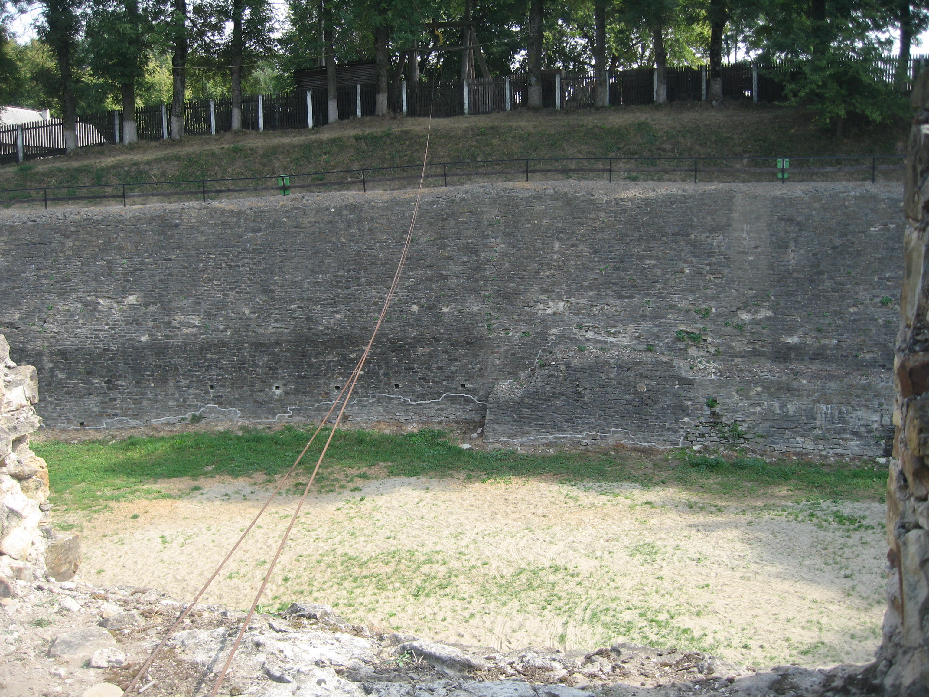 Seat Fortress of Suceava – scarp wall.